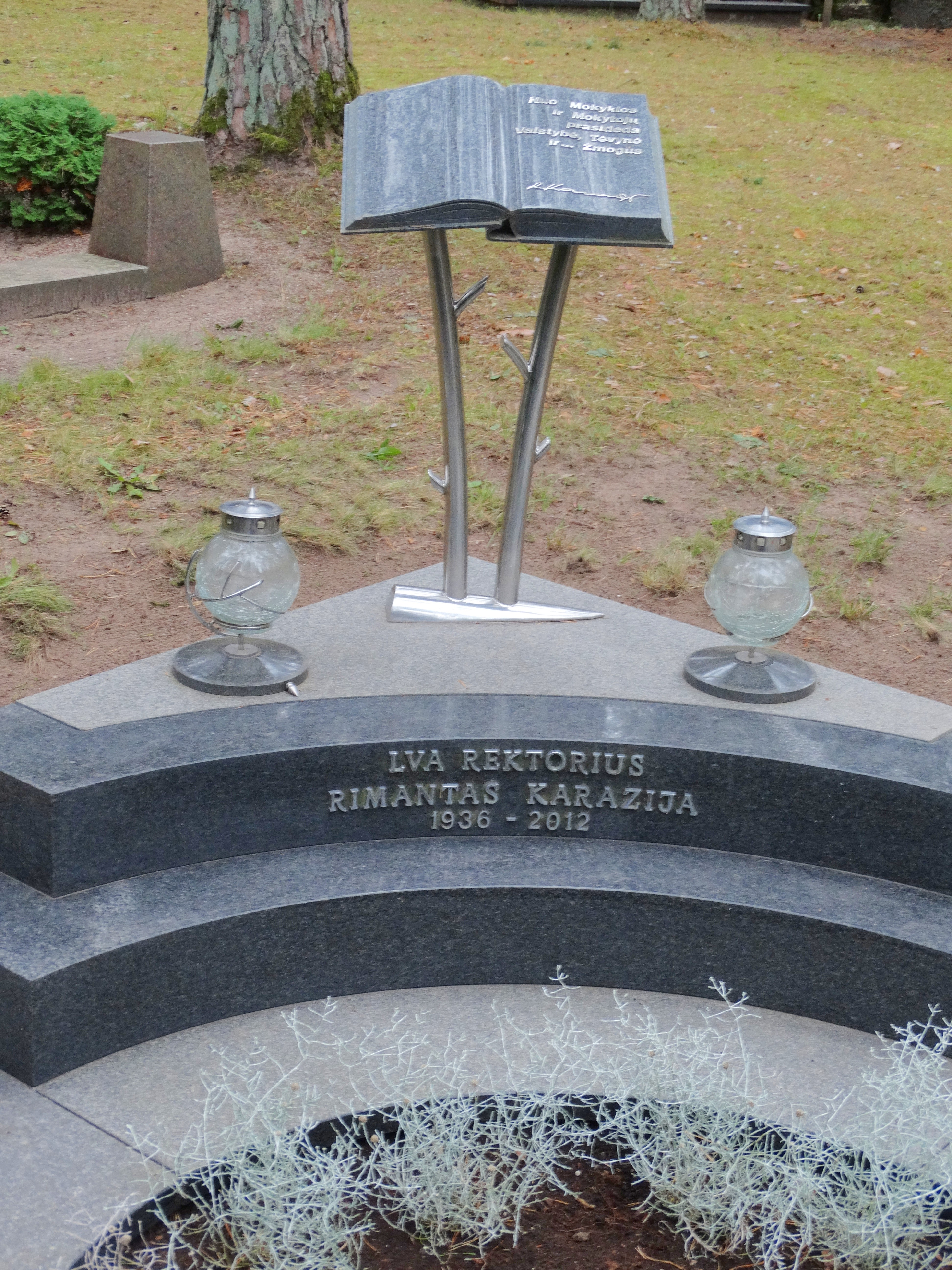 Tomb of Rimantas Karazija in Petrašiūnai, Lithuania